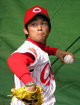 Satoshi Nibe, pitcher of the Hiroshima Toyo Carp, at Nichinan Tempuku Baseball Stadium.